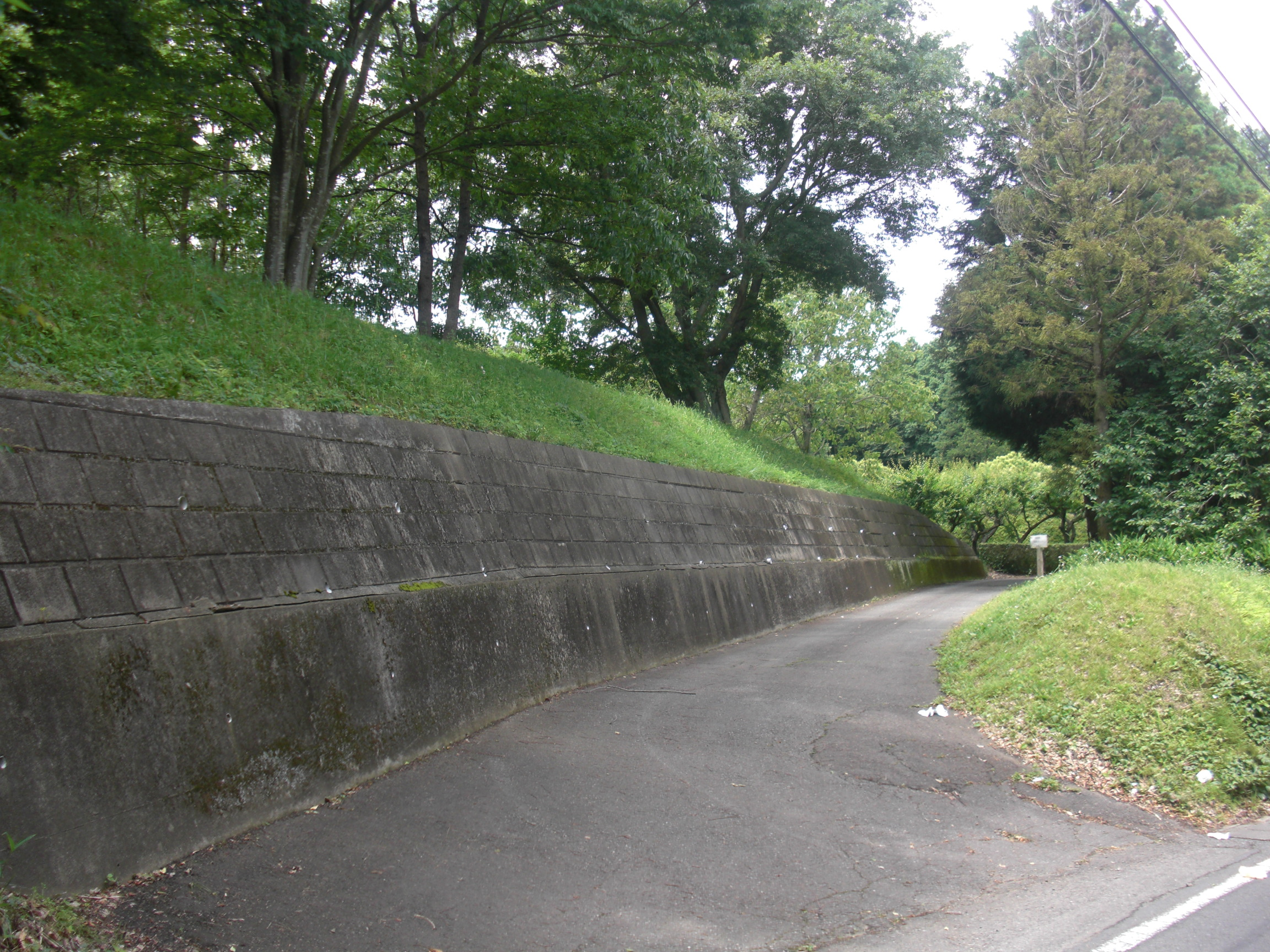 This is the site of Wakamori Prefectural Government in Wakamori, Tsukuba, Ibaraki, Japan.